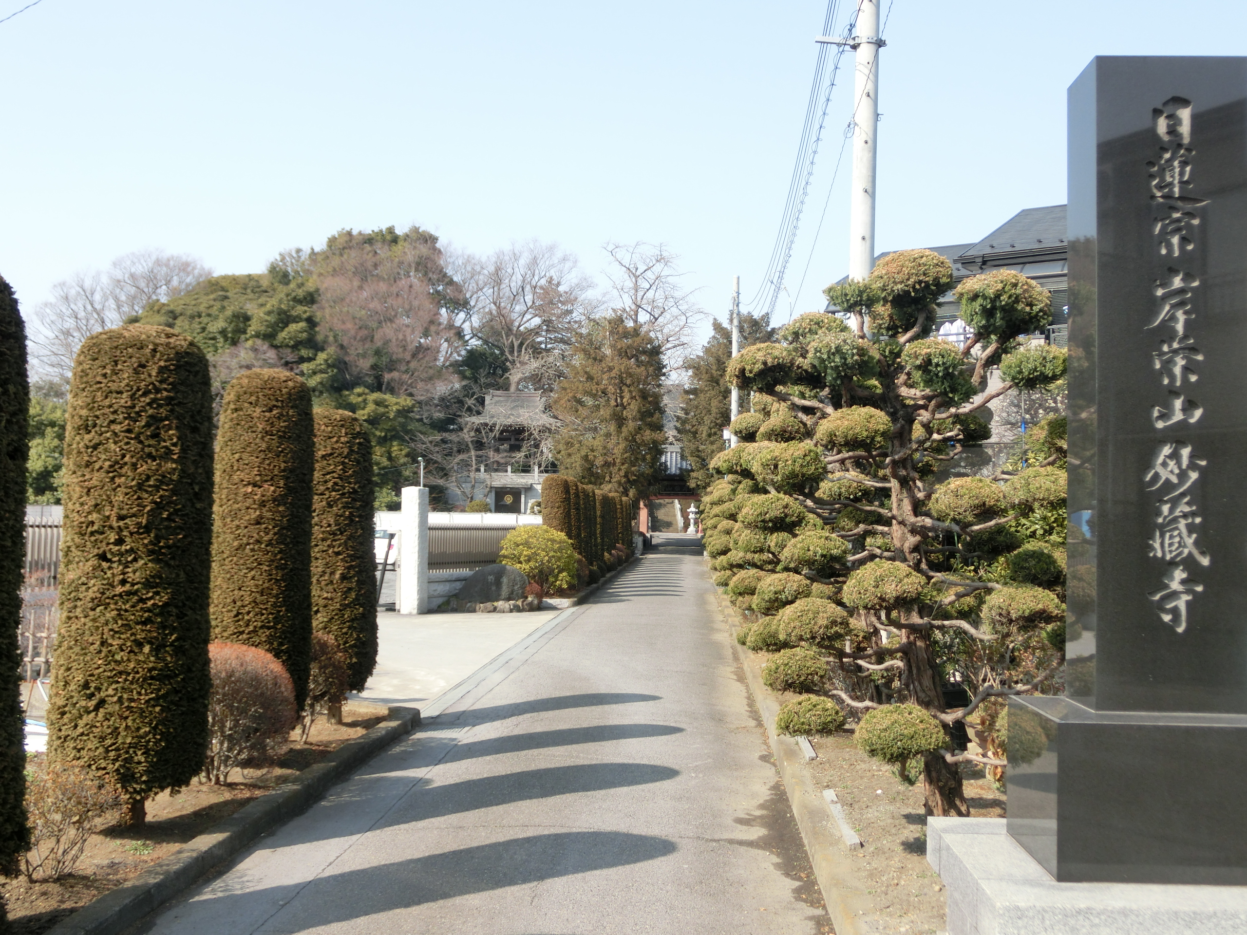 Myozo-ji (Kawaguchi)